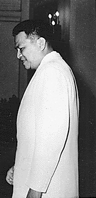 Eleanor Roosevelt with President and Mrs. Magsaysay of the Philippines in Manila, Philippines , 08/25/1955 [1] , Cropped from File:Magsaysay_Roosevelt.jpg